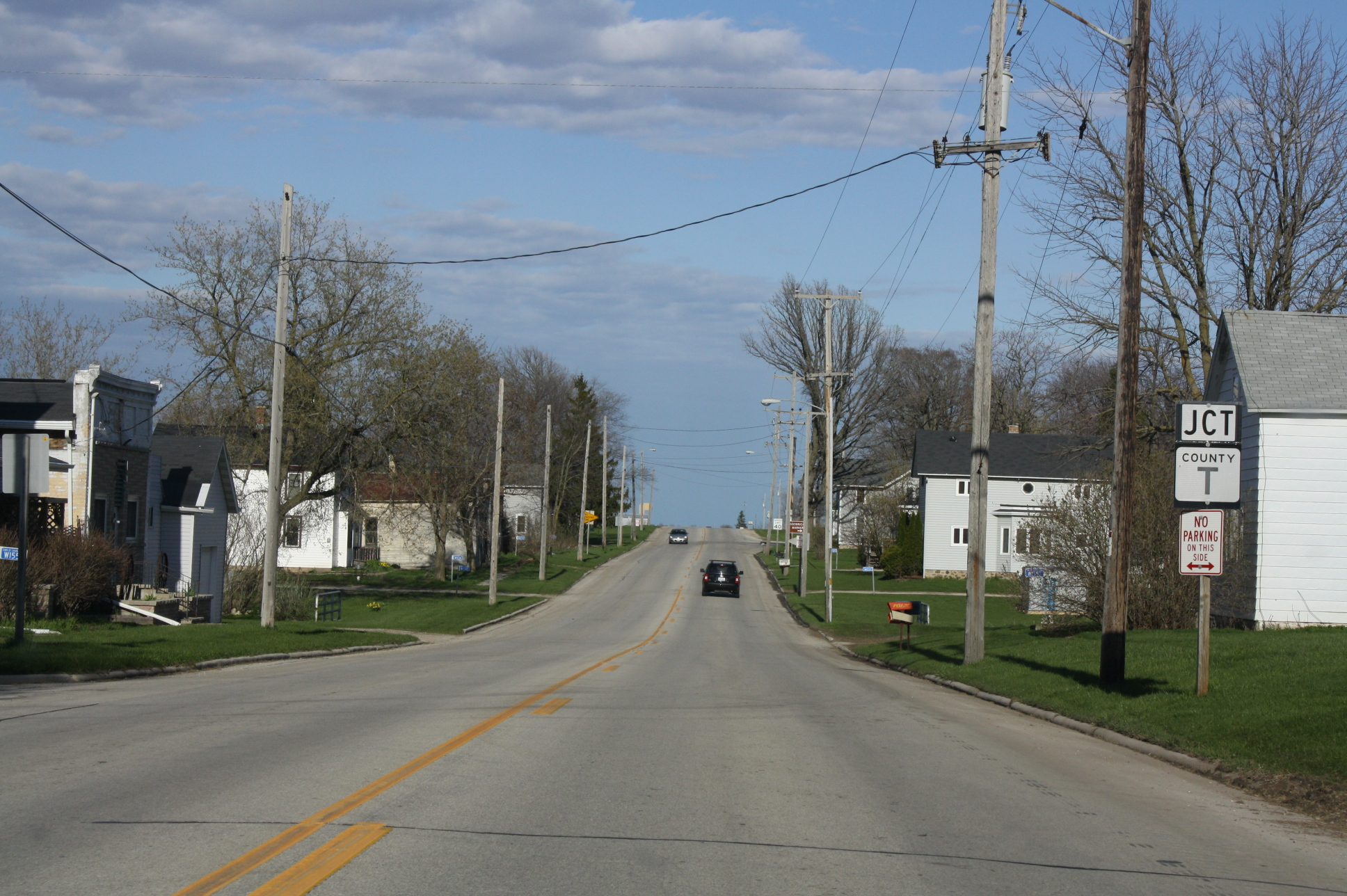 Looking east in downtown Hayton, Wisconsin.